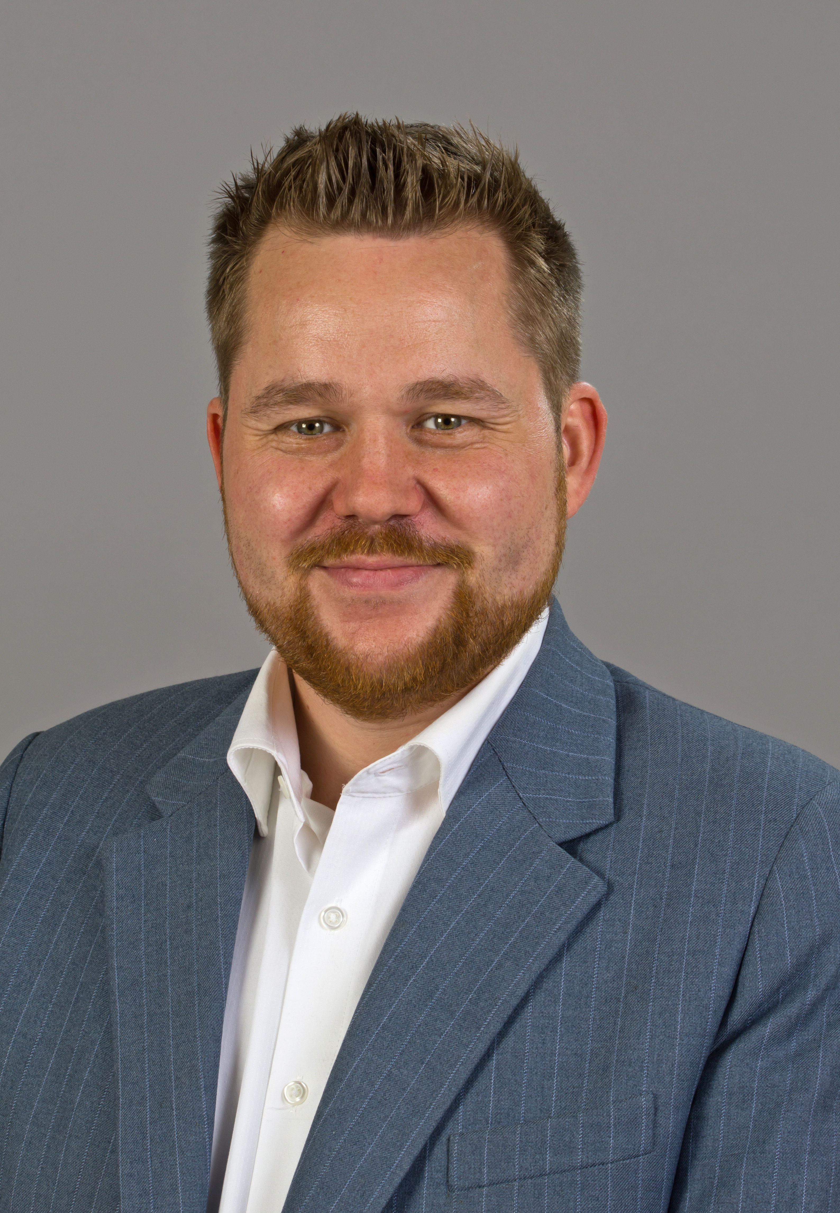 Björn Eggert, politician from Germany, member of Abgeordnetenhaus of Berlin (as of 2013)